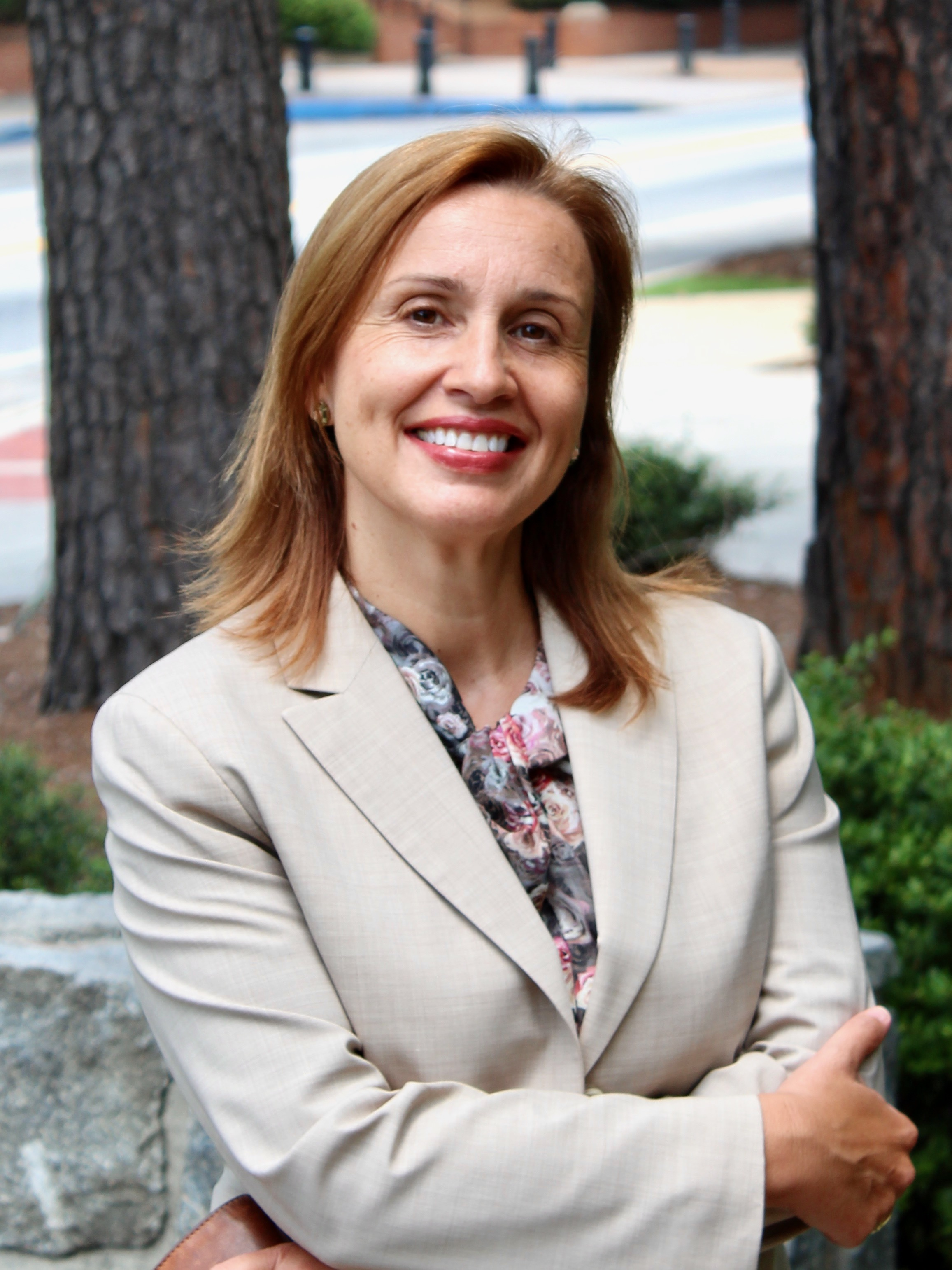 Portrait of Prof. Sonia A. Hirt to the elbow. Outside in linen blazer with pink floral print blouse.